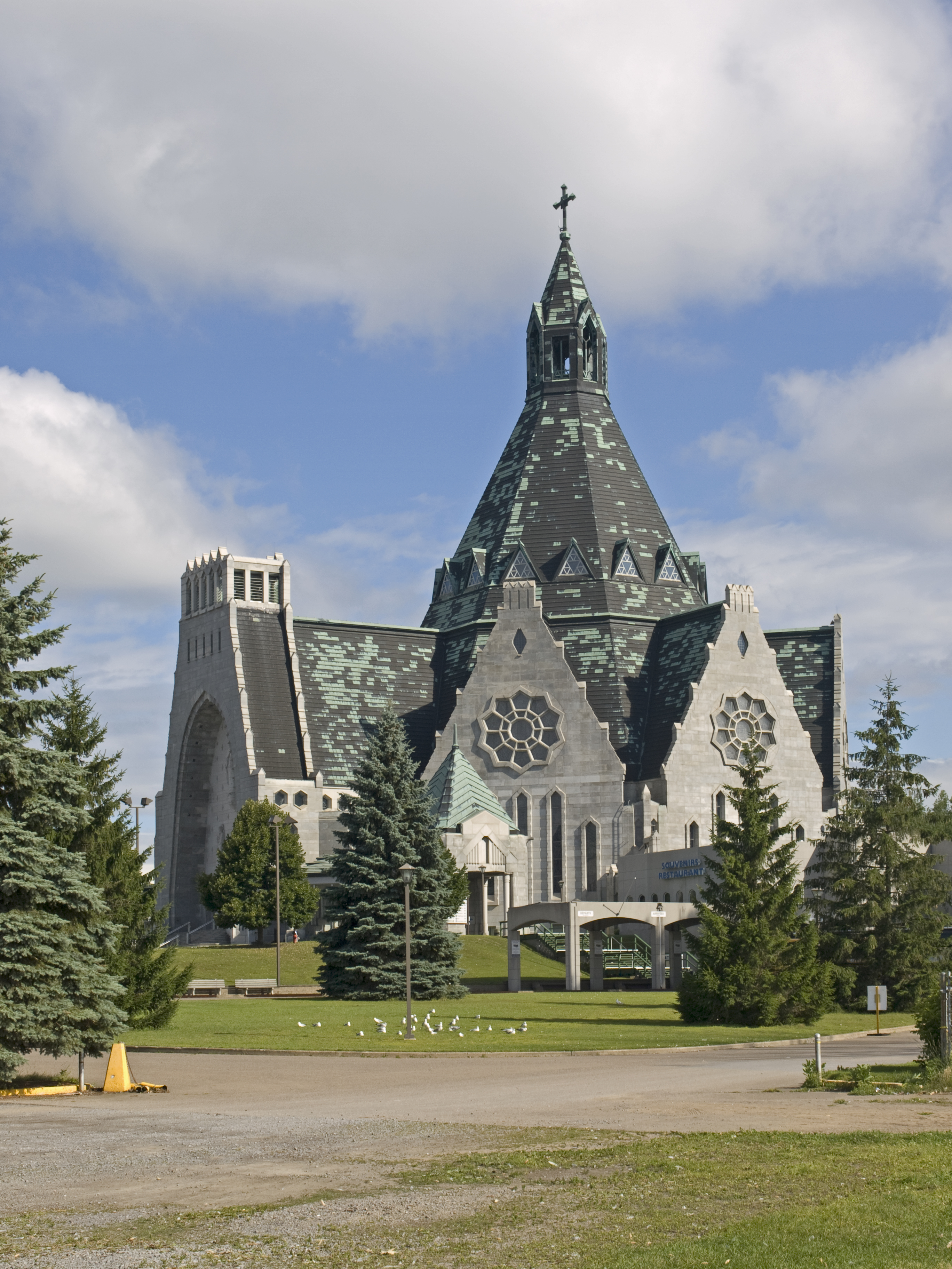 Basilica Notre-Dame-du-Cap from the south